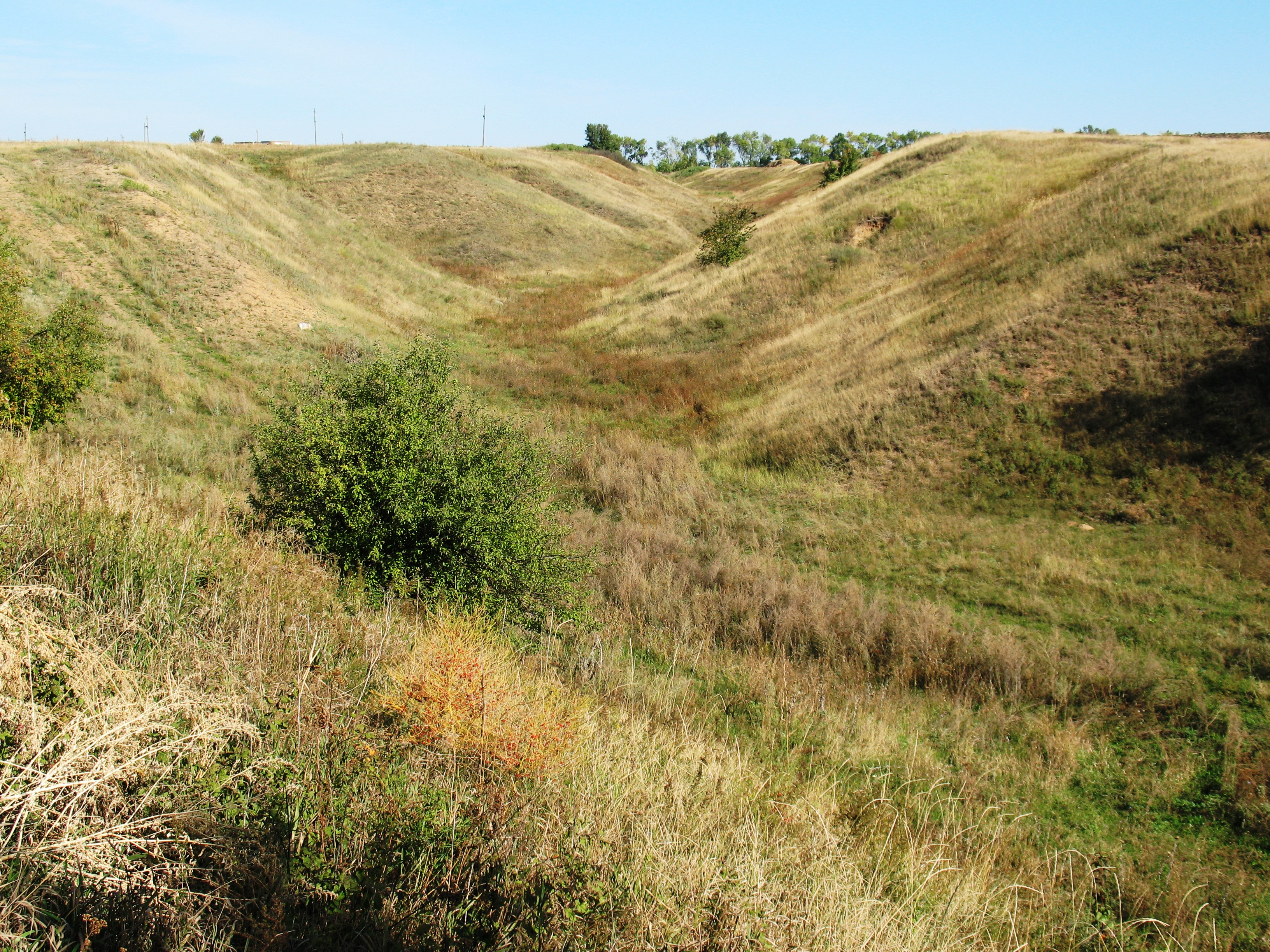 Balabanovka, Kharkov Oblast. The Gully.